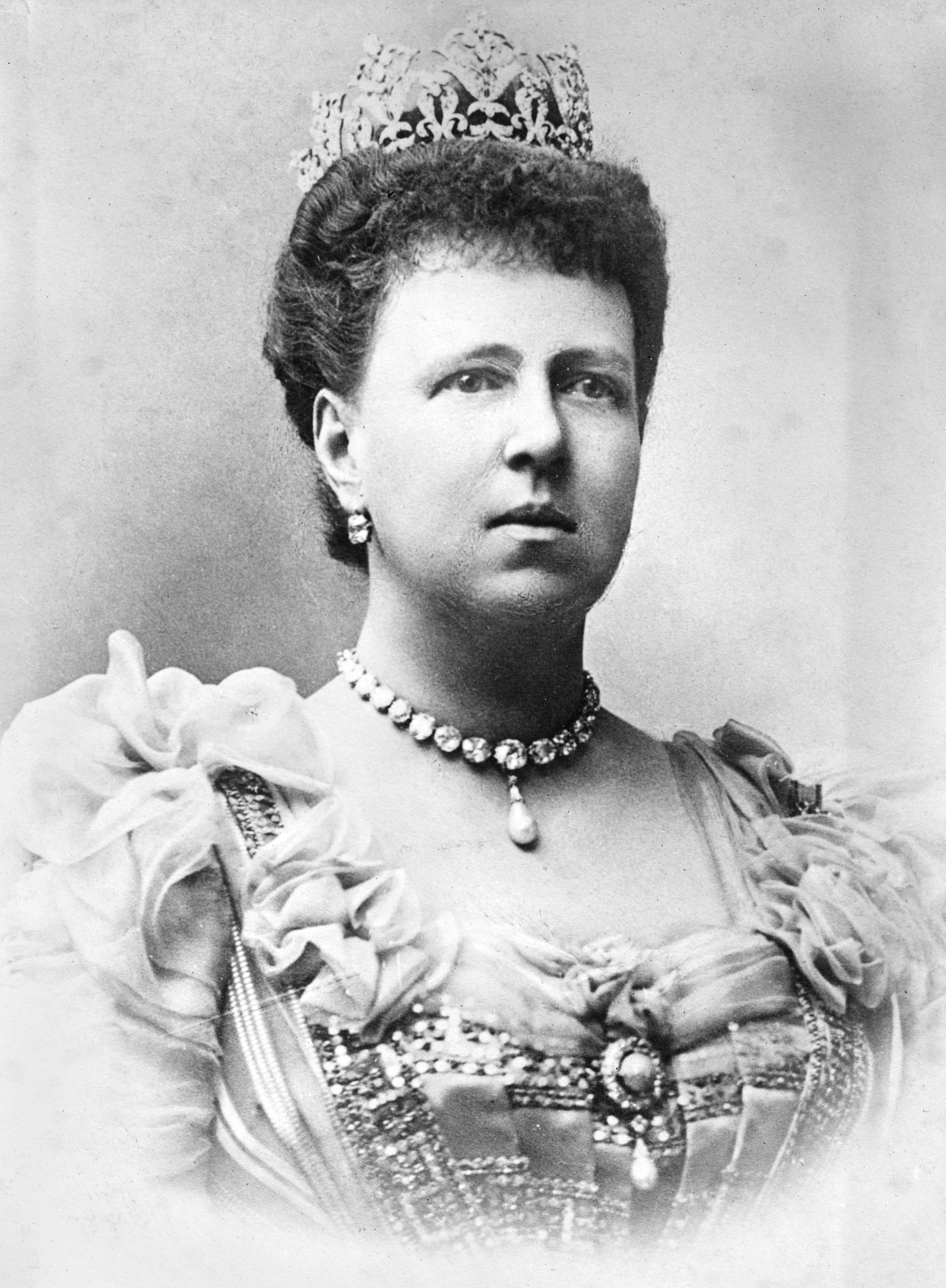 Dowager Duchess of Saxe-Coburg and Edinburgh Photograph shows the Grand Duches Maria Alexandrovna of Russia (1853-1920), wife of Alfred, Duke of Saxe-Coburg and Gotha. (Source: Flickr Commons project, 2011)